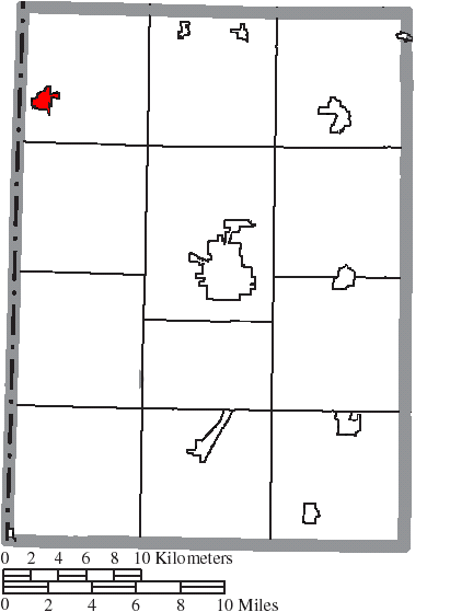 Map of the municipal and township boundaries of Preble County, Ohio, United States, as of the 2000 census, with the location of the village of New Paris highlighted. Township borders are shown only in unincorporated areas in order to differentiate incorporated and unincorporated areas more clearly.